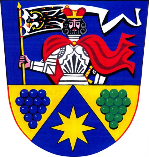 CoA Tasov